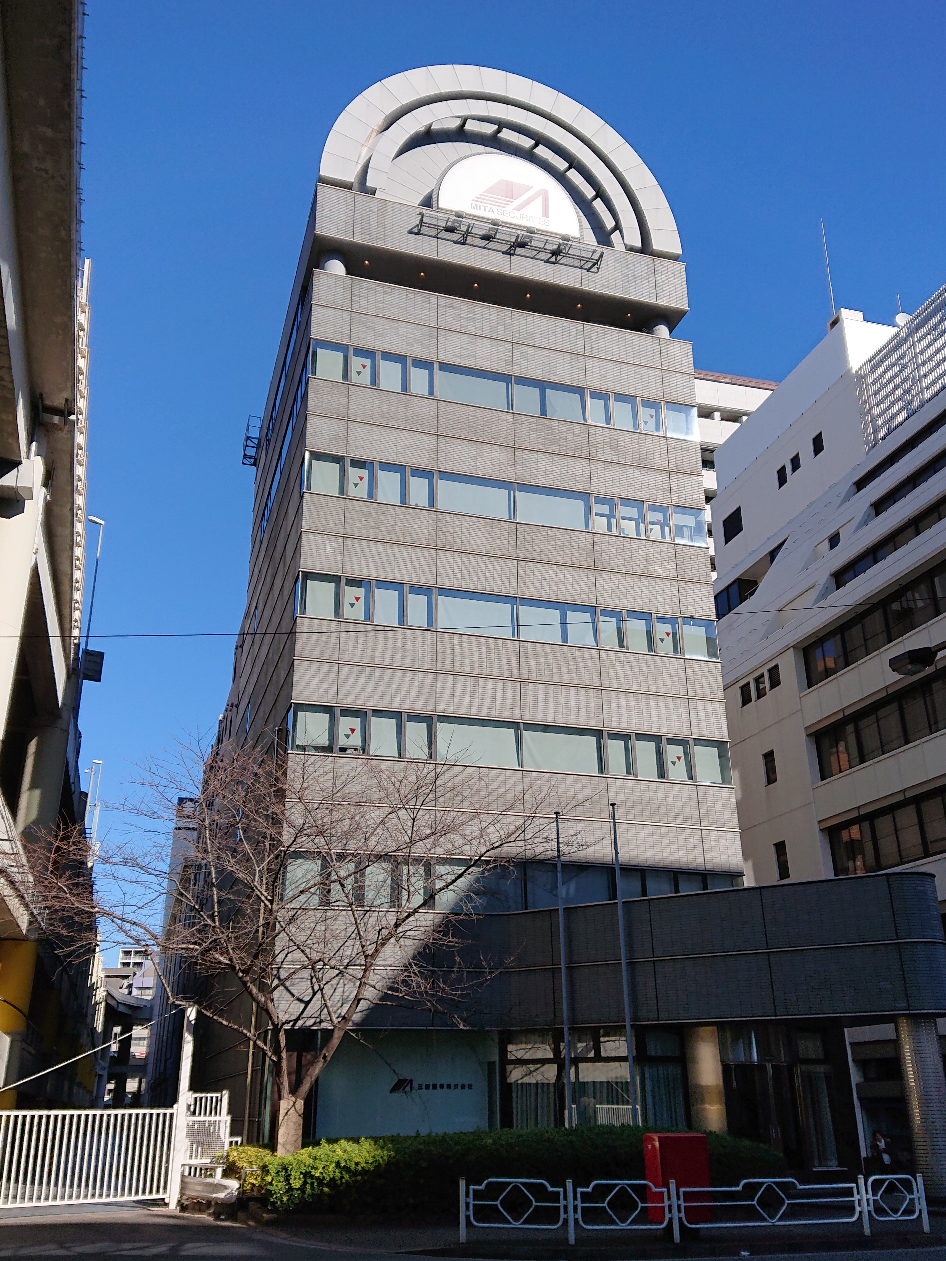 Mita Securities headquarters, located at 3-11 Nihonbashi-Kabutocho, Chuo, Tokyo, Japan